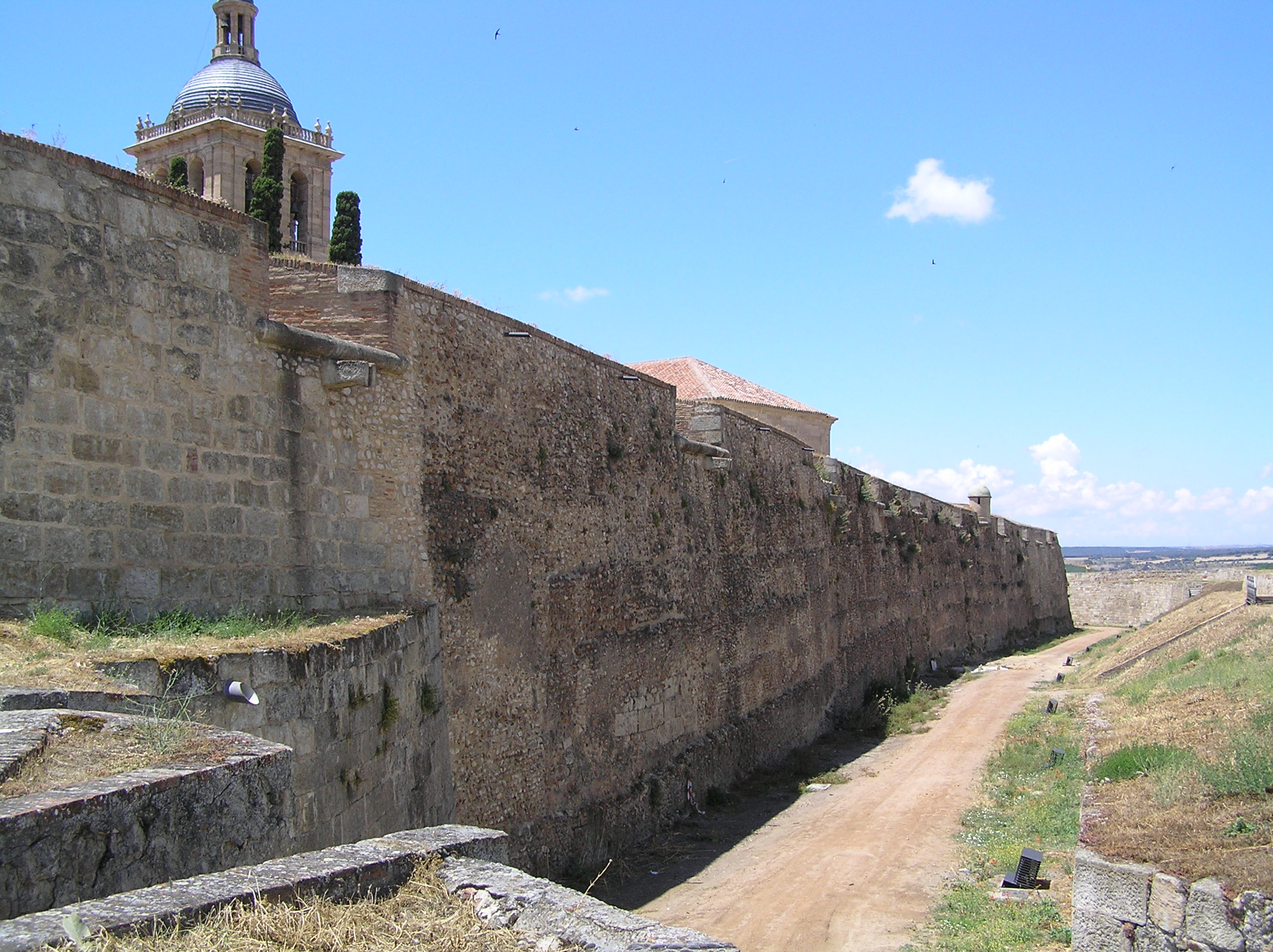 Inner wall of Ciudad Rodrigo (from the Amayuelas gate to the west)